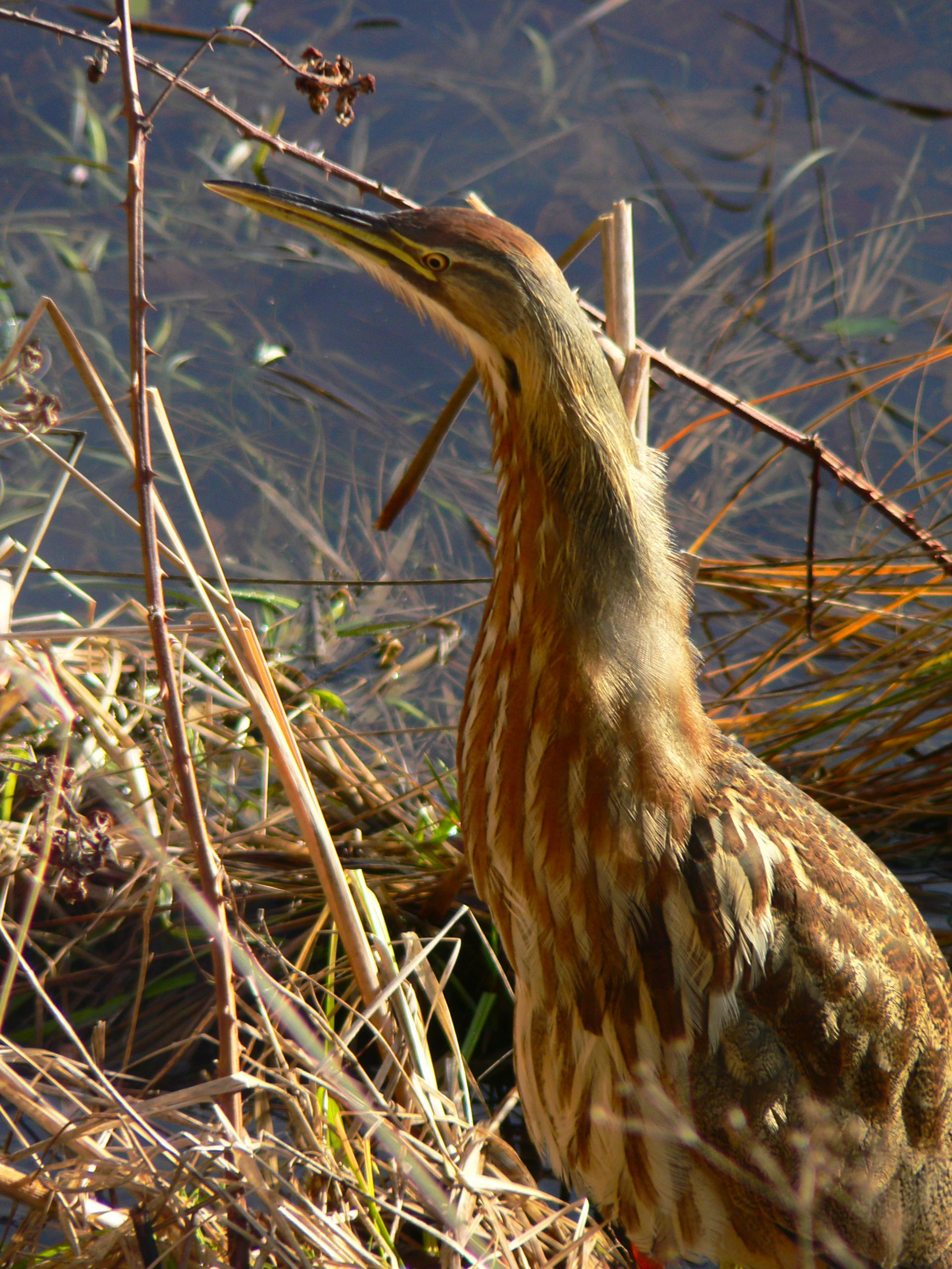 (American Bittern)